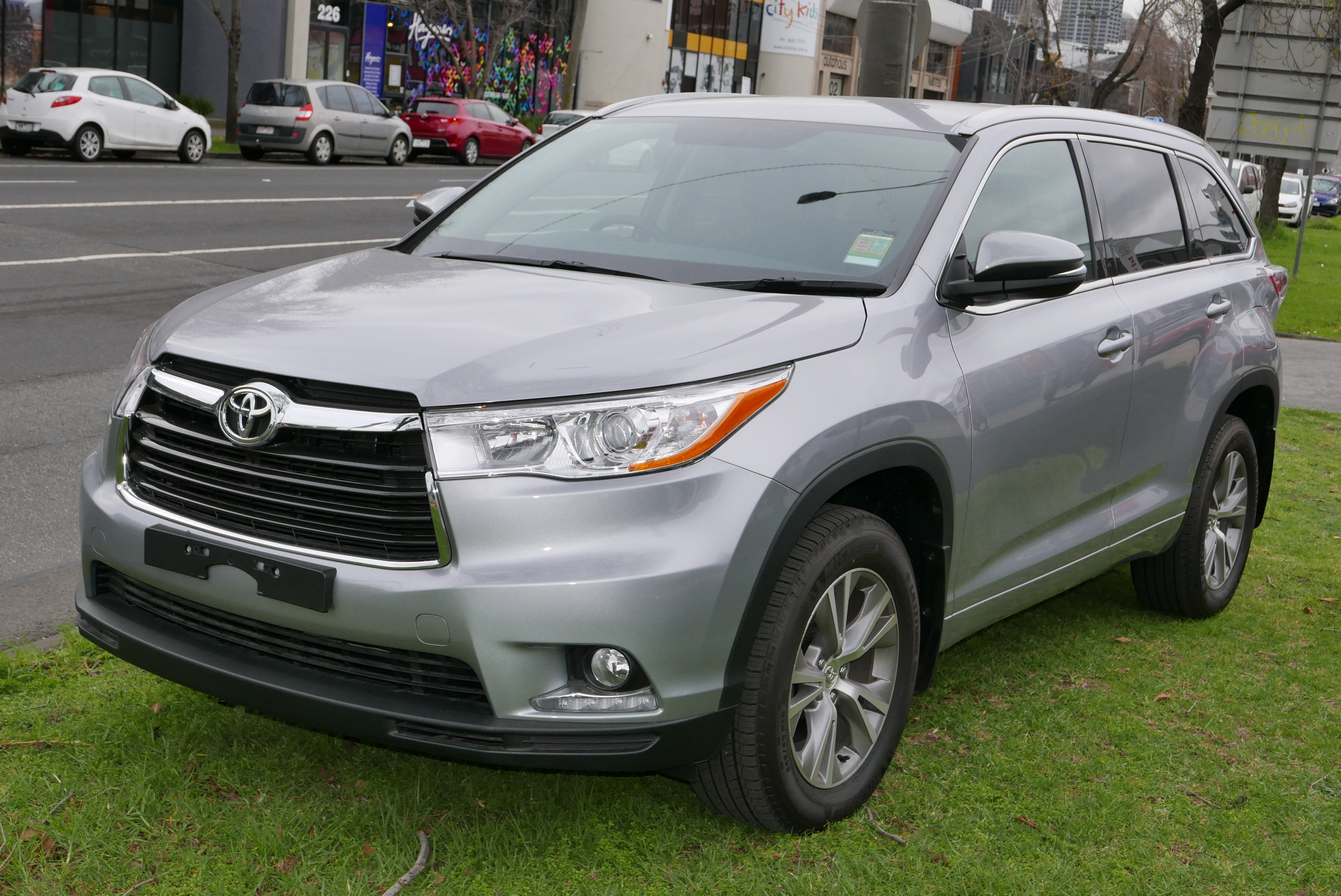 2015 Toyota Kluger (GSU55R) GXL wagon. Photographed at South Melbourne Toyota, Southbank, Victoria, Australia.